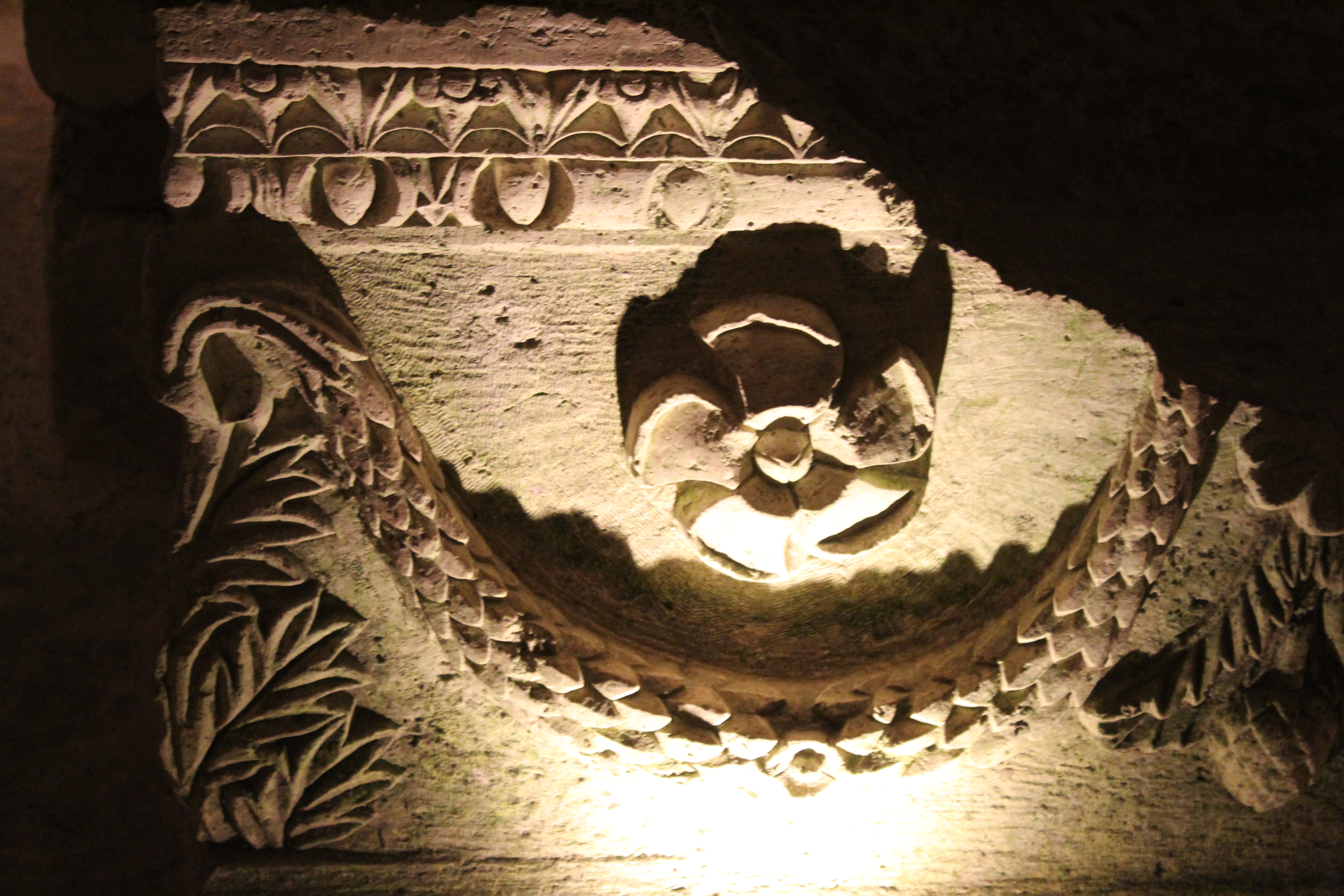 Decorated sarcophagus at Beit Shearim necropolis (Lower Galilee)